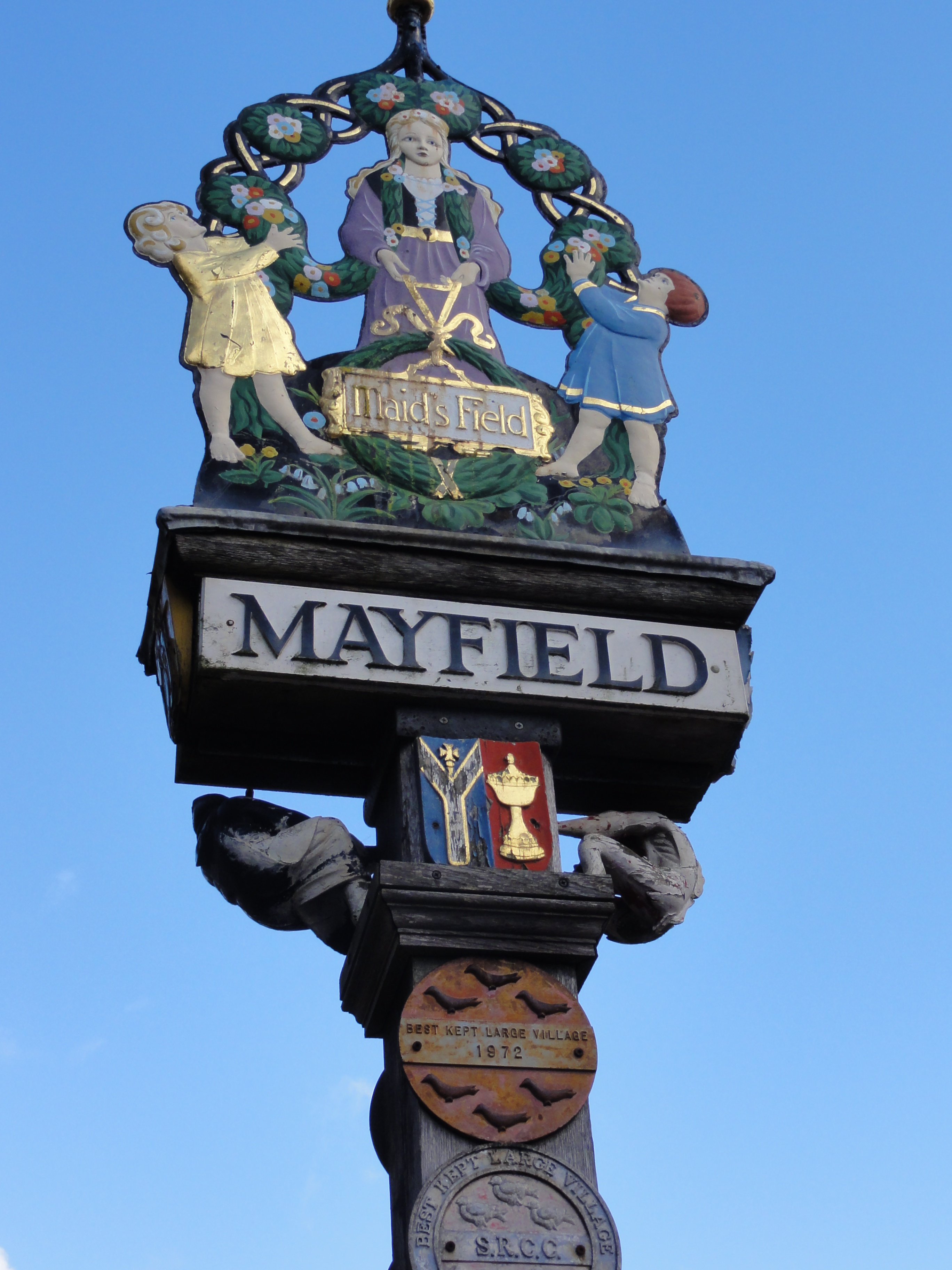 Closeup of Mayfield village sign.